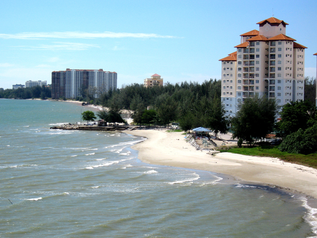 Port Dickson, Malaysia